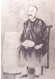 Liu Mingchuan (7 September 1836 - 21 January 1896) was a Chinese official who lived in the late Qing dynasty.